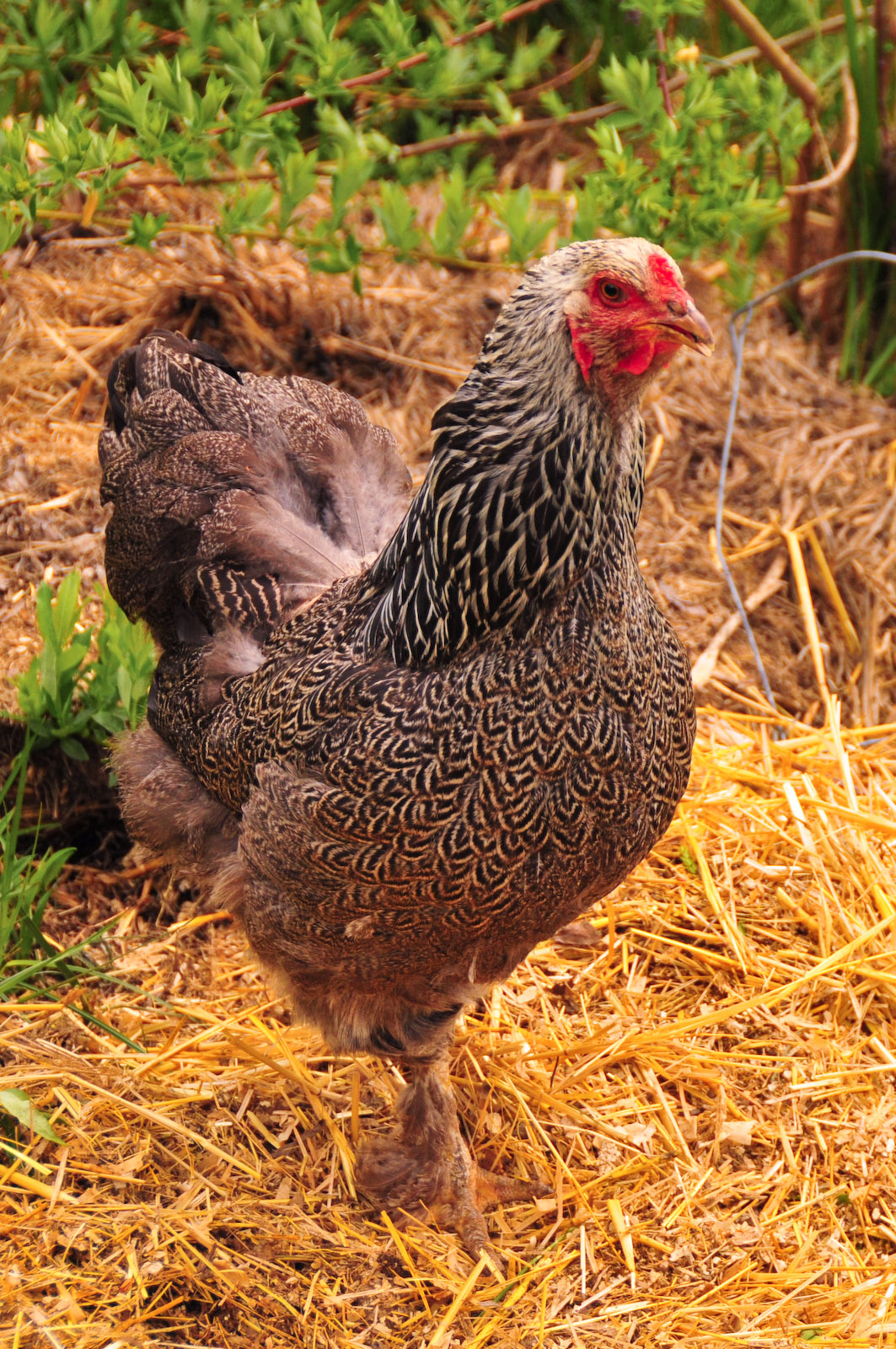 A Dark Brahma hen. see also Image:Dark Brahma hen, Oregon.jpg for same bird.